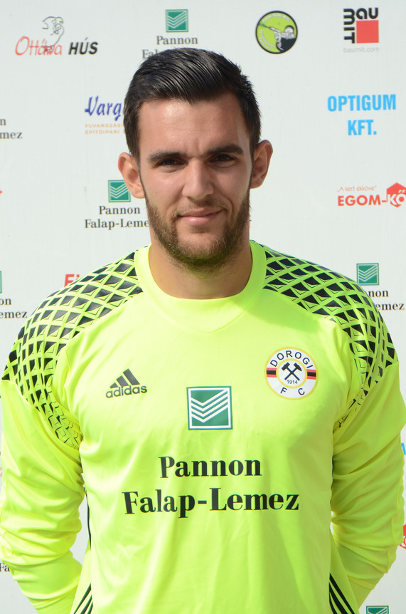 He is a great goalkeeper. His played for Kispest Honved mostly in the second team of the club. He spent very good period at FC Dorog in whole 2016 year